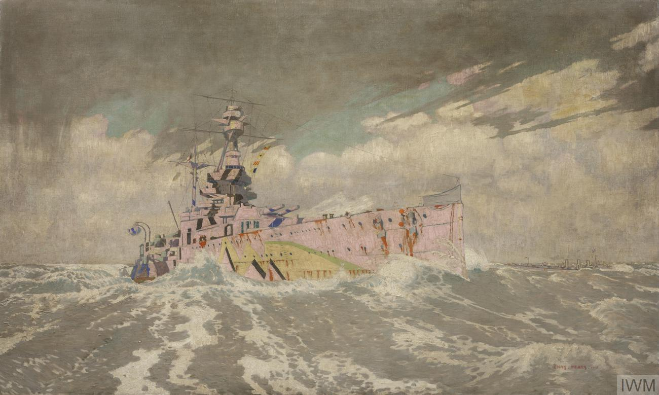 image: The Royal Navy Revenge-class battleship HMS Ramillies at sea in rough weather conditions. She is shown from the bow end and starboard side and is painted in a dazzle camouflage scheme, incorporating pink and yellow paint.